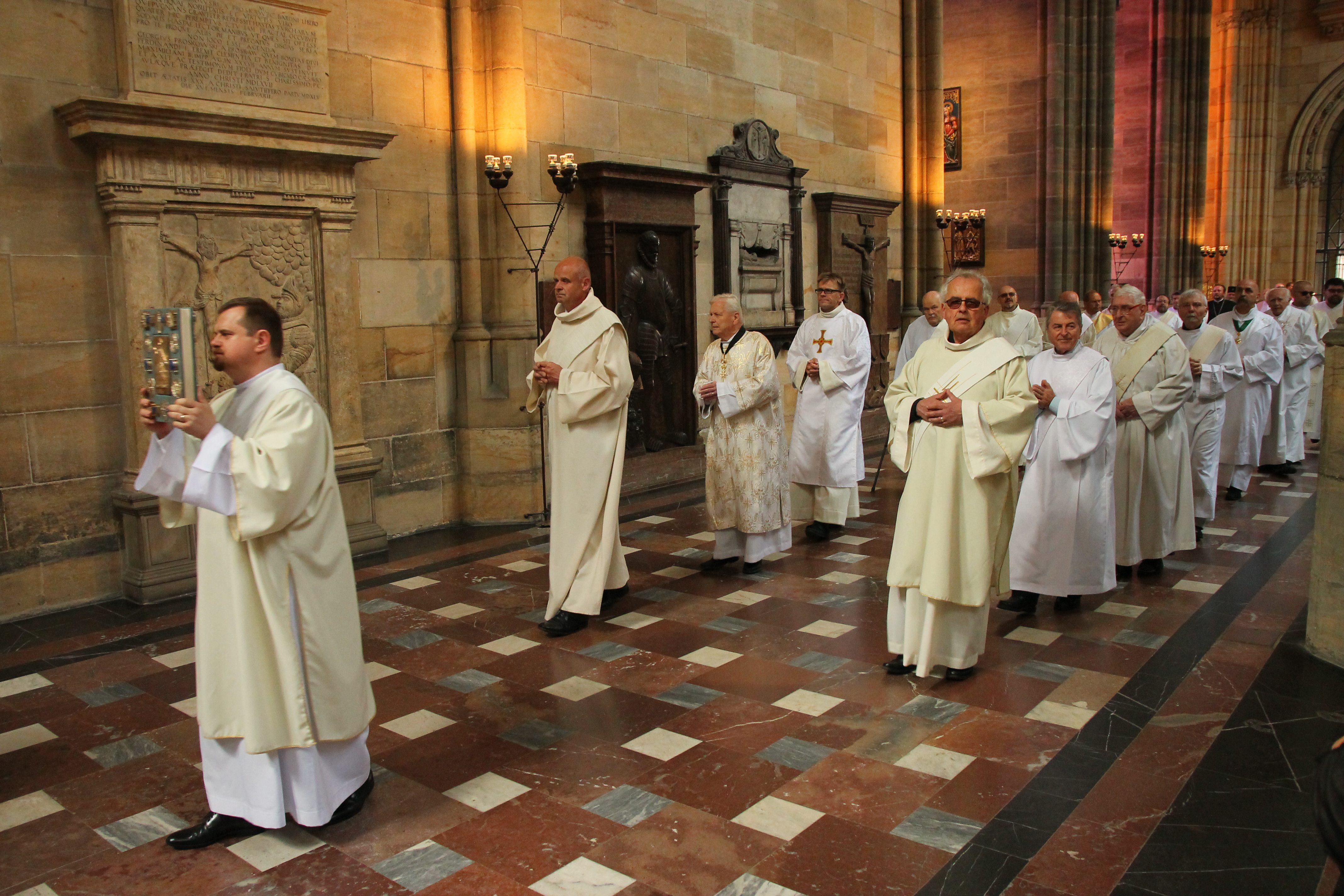 Liturgical procession before the episcopal ordination of Zdenek Wasserbauer held on May 19th, 2018, Prague